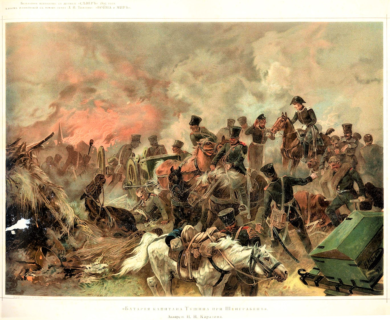 In Leo Tolstoy’s novel War and Peace is description of the artillery battery of fictional Captain Tushin at the Battle of Schöngrabern, it is unclear how closely Tolstoy's version of the battle relates to the historical action